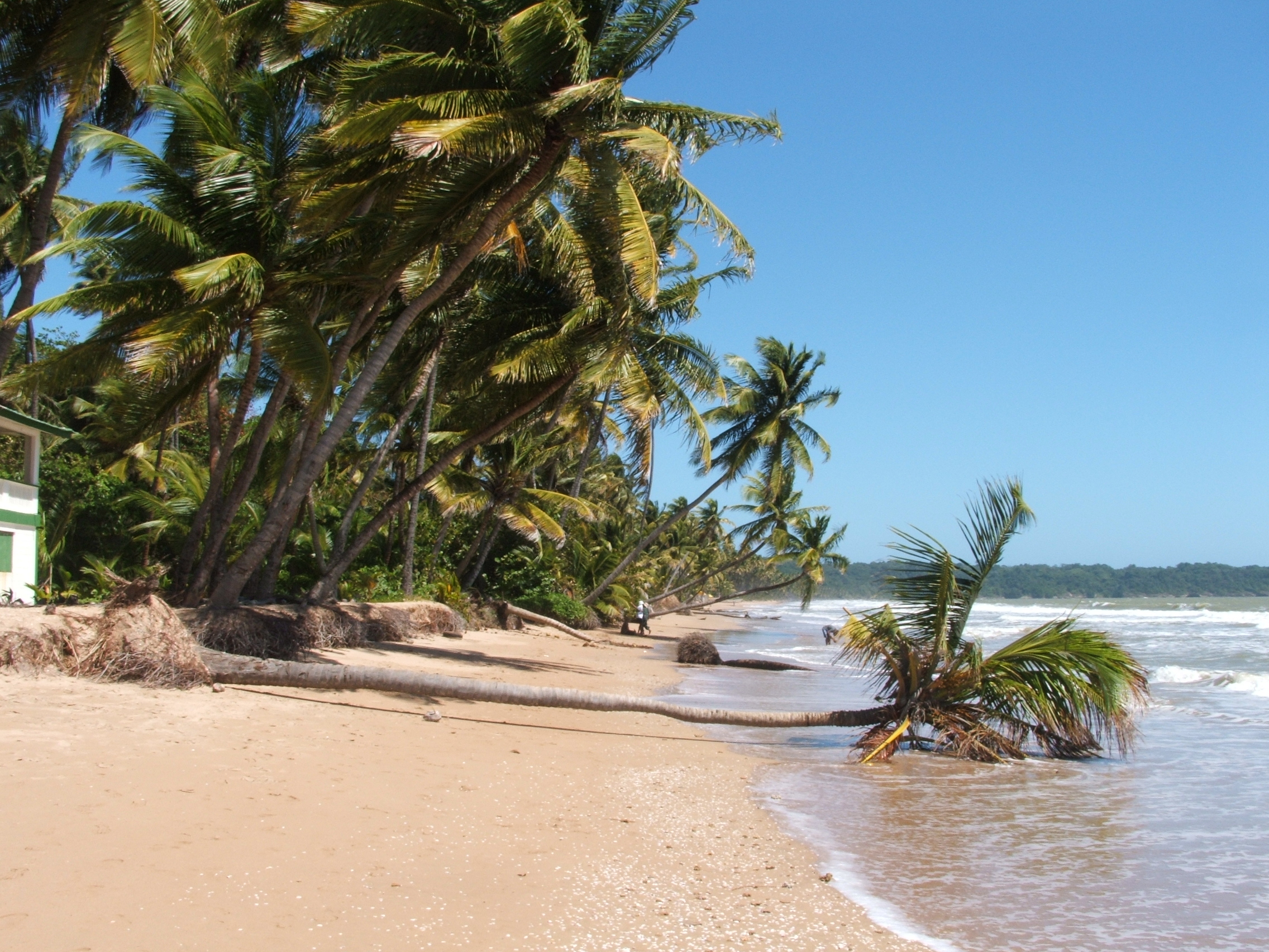 Mayaro Beach - Effects of Coastal Erosion